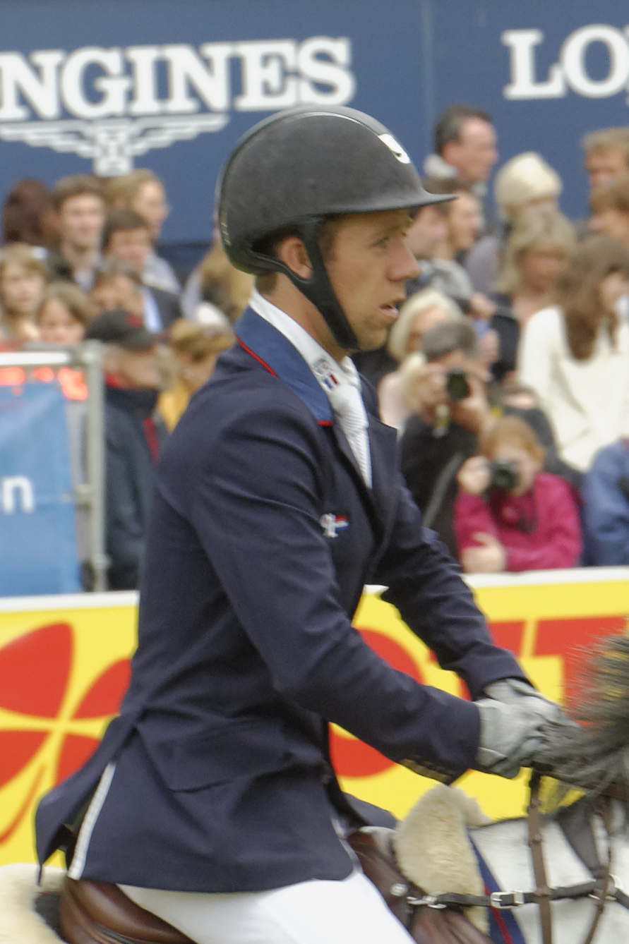 Internationales Pfingstturnier Wiesbaden 2013 The making of this document was supported by the Community-Budget of Wikimedia Germany.